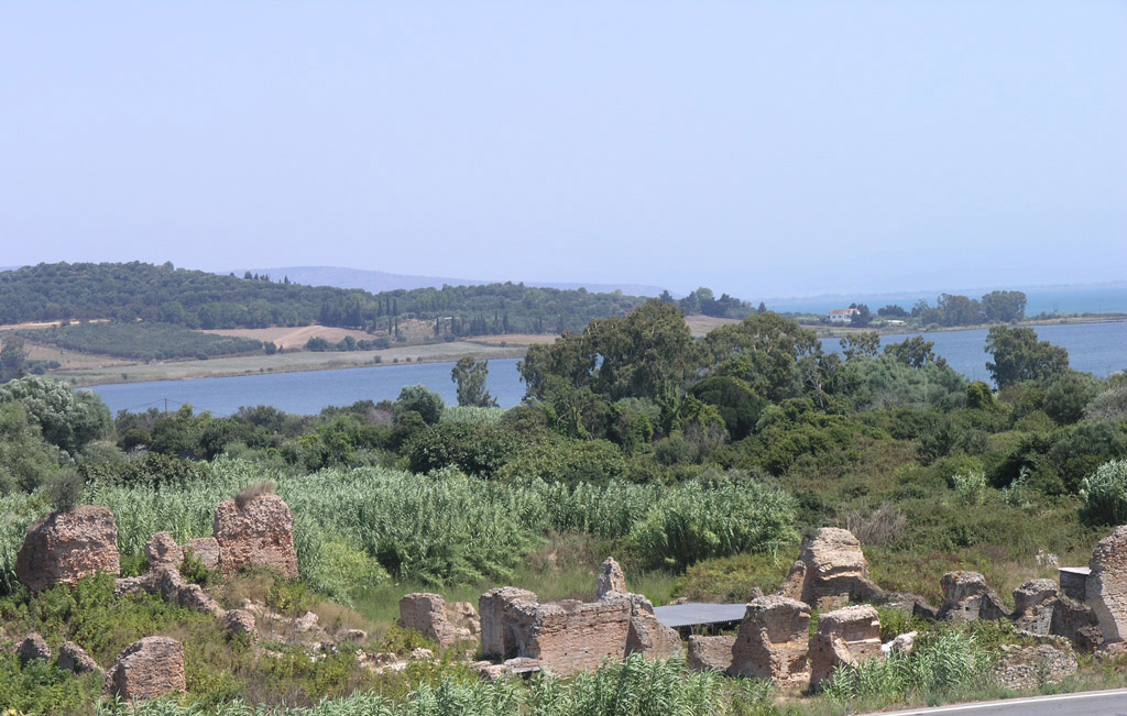 The central thermae of Nicopolis in Epirus and the Mazôma laguna beyond as seen from the South. Photography taken by Marsyas 08:43, 22 September 2005 (UTC)